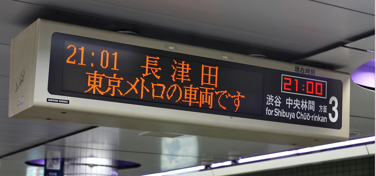 A train information board of Omotesandō Station Tokyo Metro Hanzōmon Line.